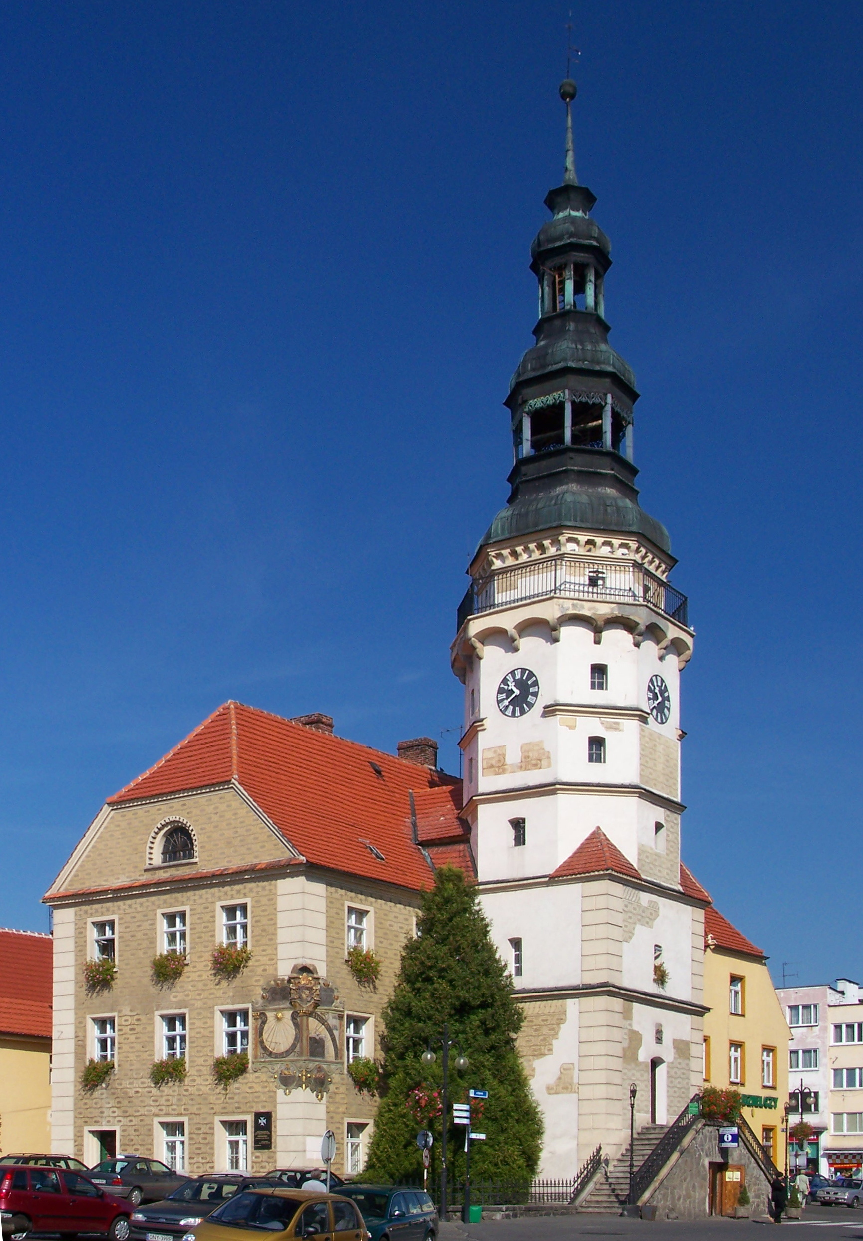 Cityhall in Otmuchów (Poland).